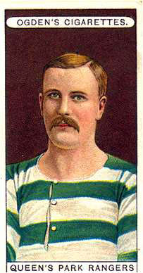 A cigarette card issued by Ogdens in 1906 featuring QPR in their previous home strip.